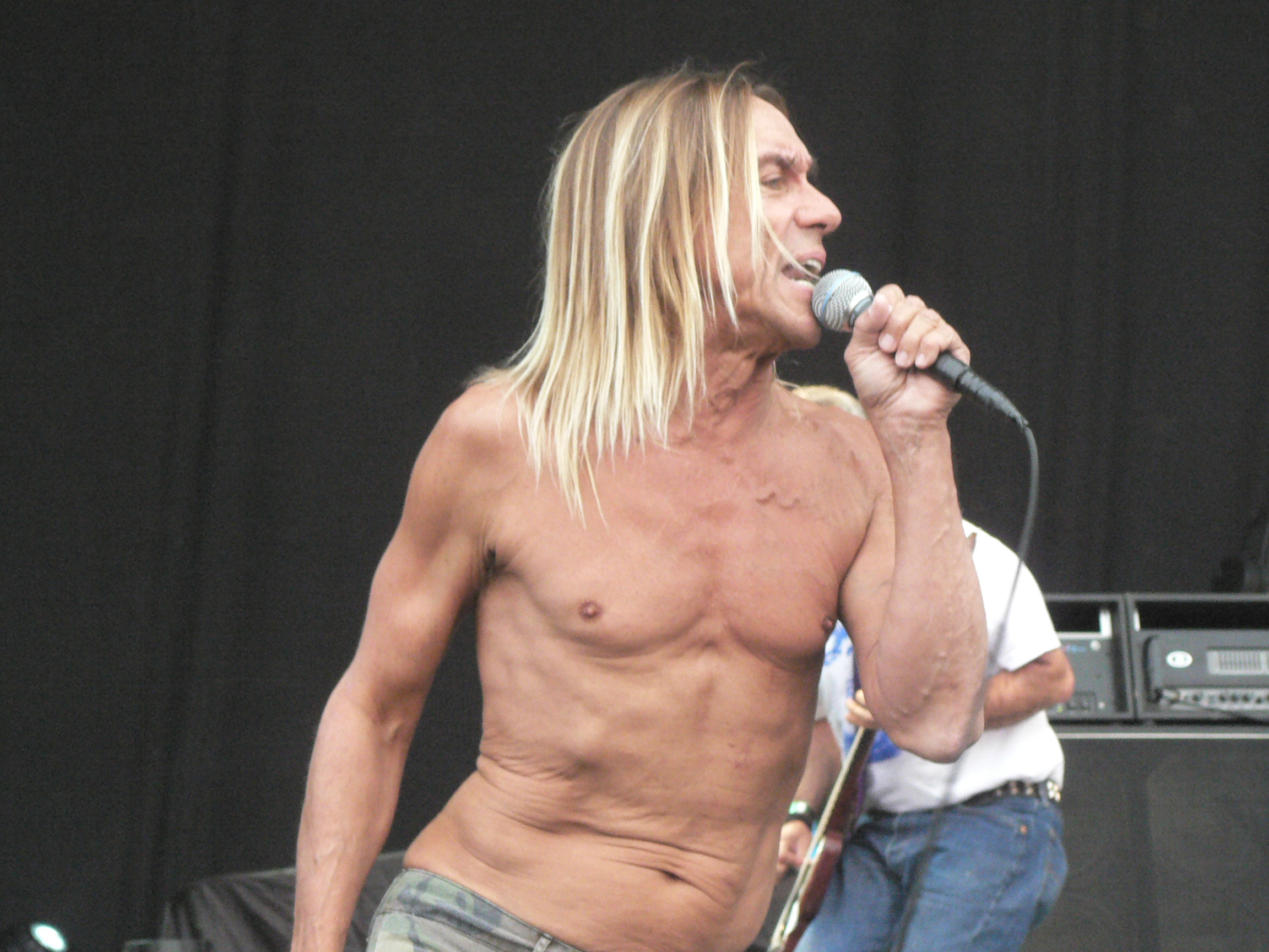 Live on the 15th of August, 2006. Sziget Fesztivál, Budapest, Hungary. Iggy and the Stooges. ©© Derzsi Elekes Andor, Budapest, 2014, Published in the Metapolisz DVD line. You are authorised to use this photo under Creative Commons – even for commercial, for profit purposes. The photo must be attributed to Derzsi Elekes Andor. All of the photos and vids in the Metapolisz DVD line are under Creative Commons and can be used even for commercial – for profit – purposes. Recommended Citation Derzsi Elekes Andor: Metapolisz DVD line